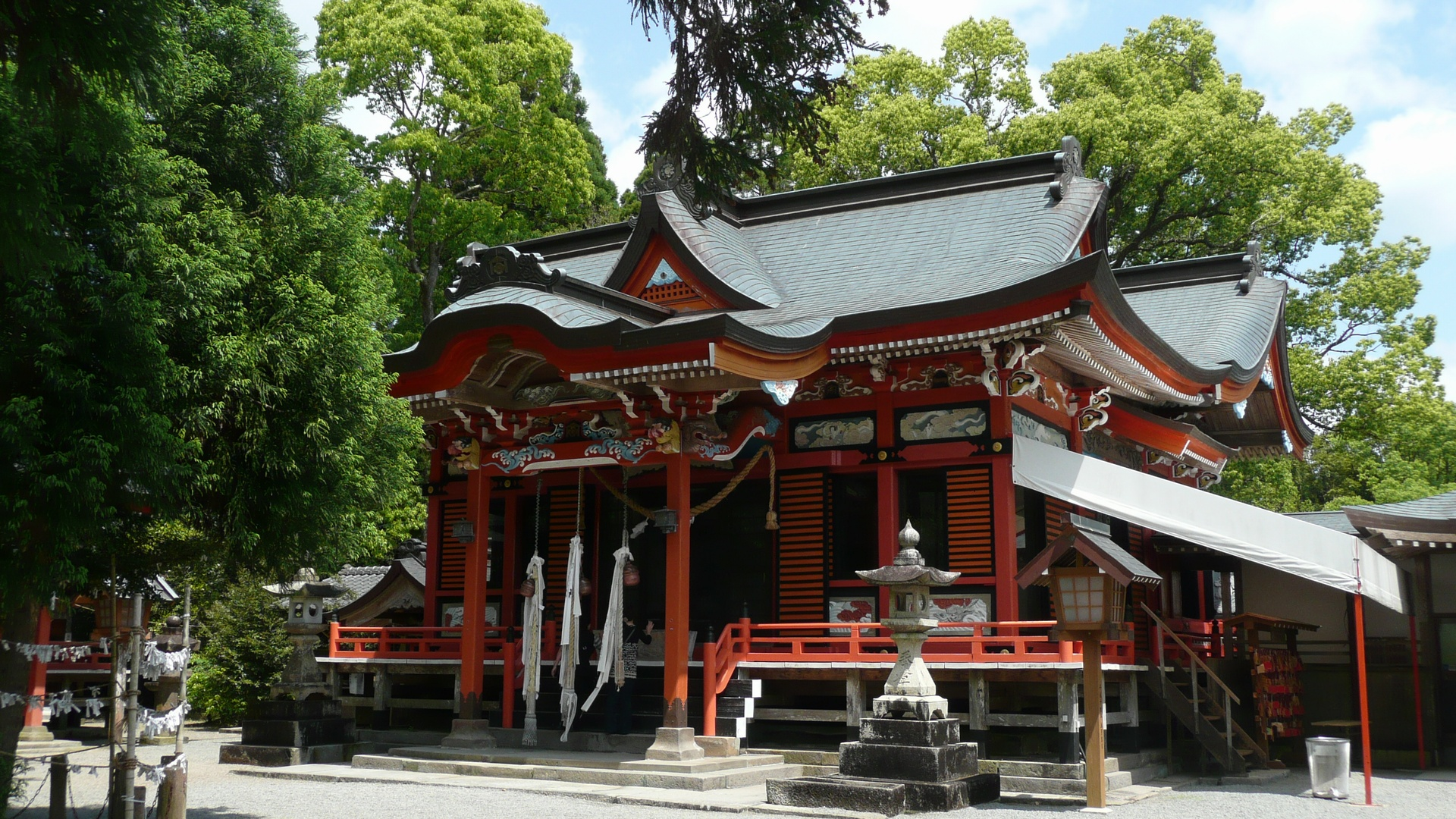 [Honden (Yowara Shrine - Nichinan City, Miyazaki, Japan)